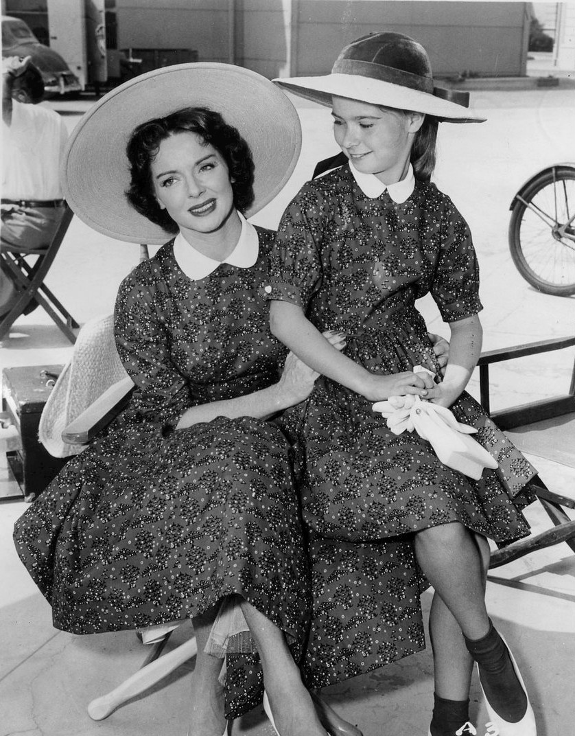 Photo of Arleen Whelan and Lydia Reid from the Warner Bros. Presents episode "Shadow on the Sand.